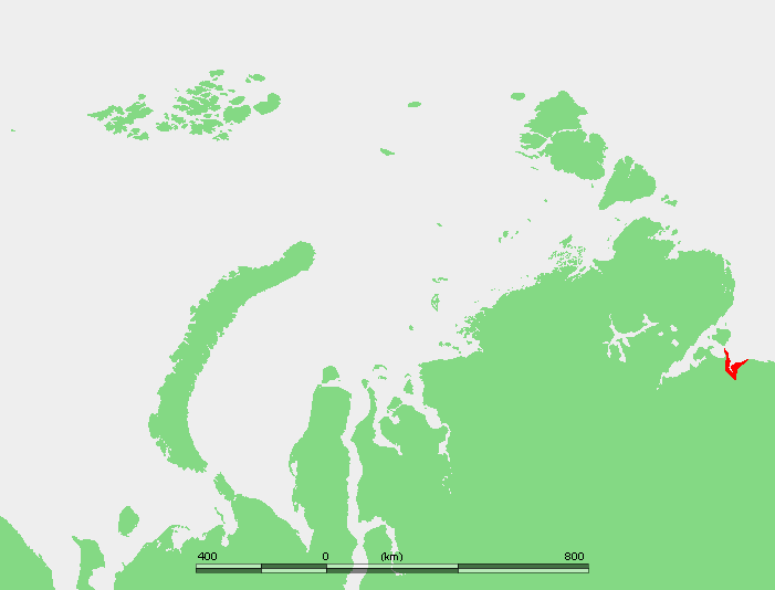 Anabar Bay